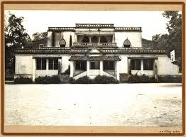 Vidyaranya High School Original Building